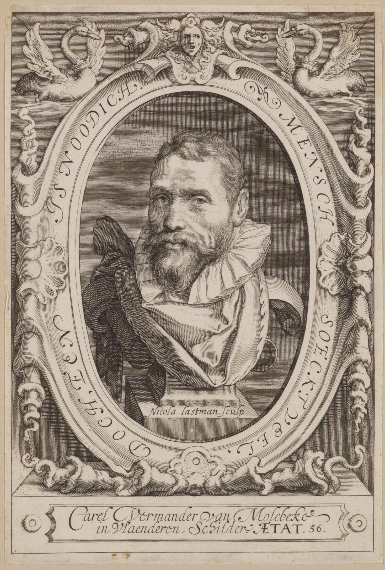 Portrait of Karel van Mander for the second edition of the Schilderboeck in 1618, by Nicolaes Lastman (brother of Pieter Lastman). Copy as a mirror image of the original engraving by Jan Saenredam (printed in the first edition of the book).